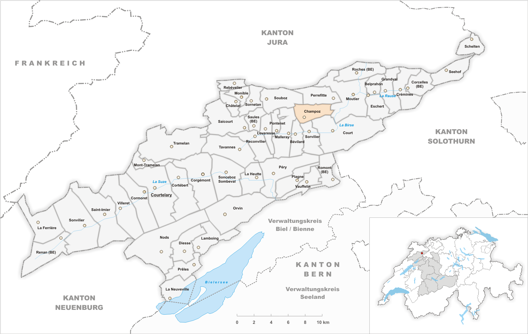 Municipality Champoz